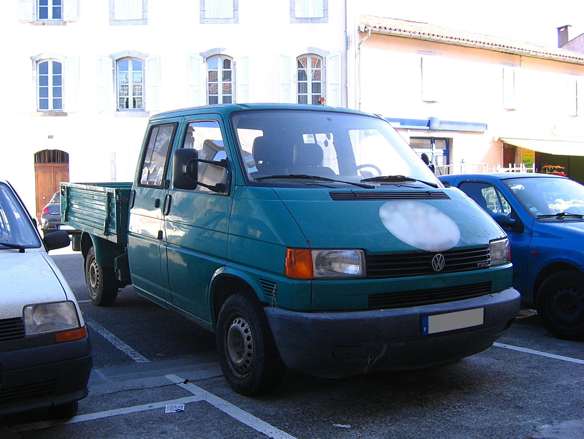 The Doka / double cab model exists for all VW Transporters since the 1950s.